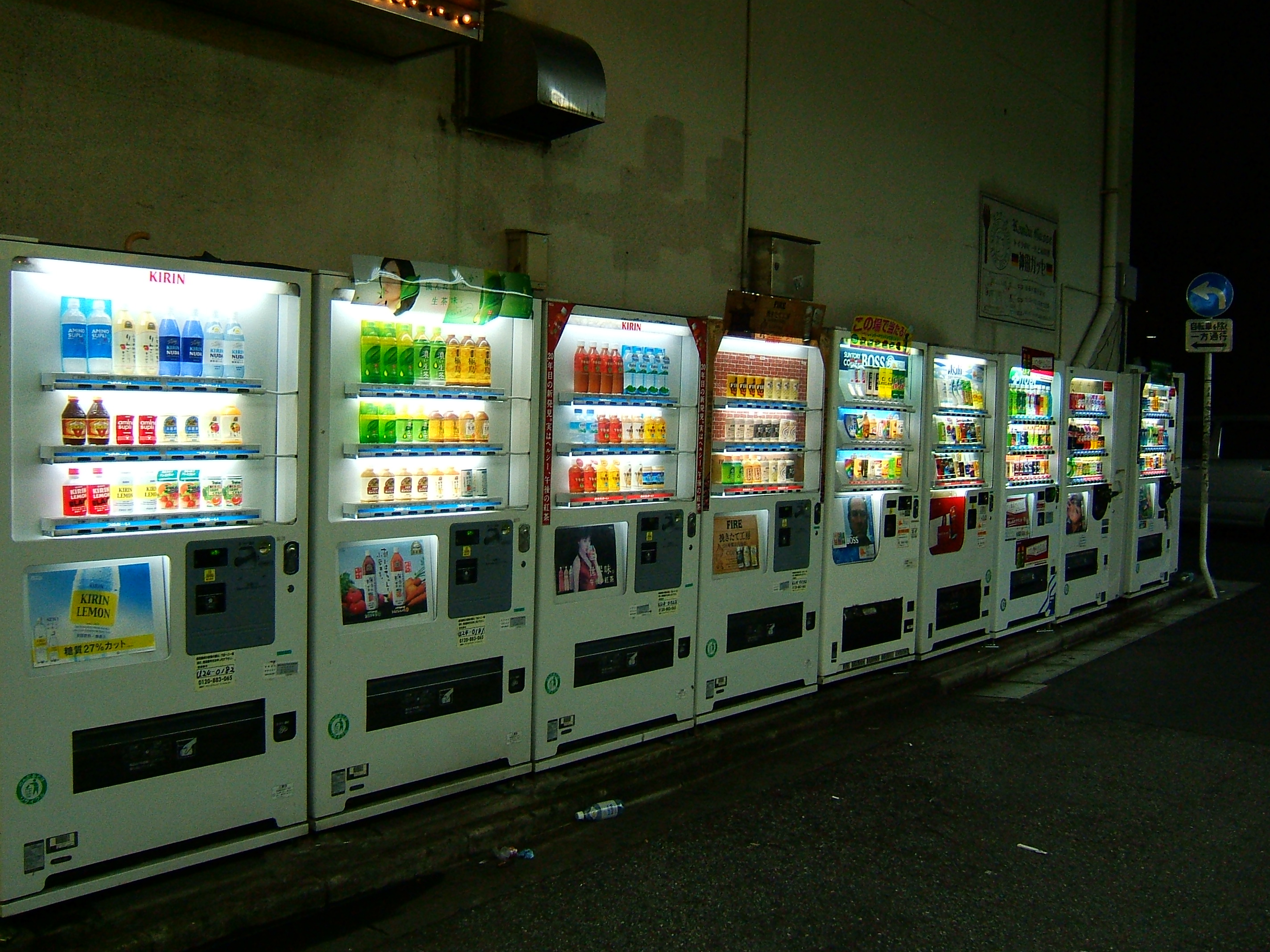 Vending machines at night in Tokyo.